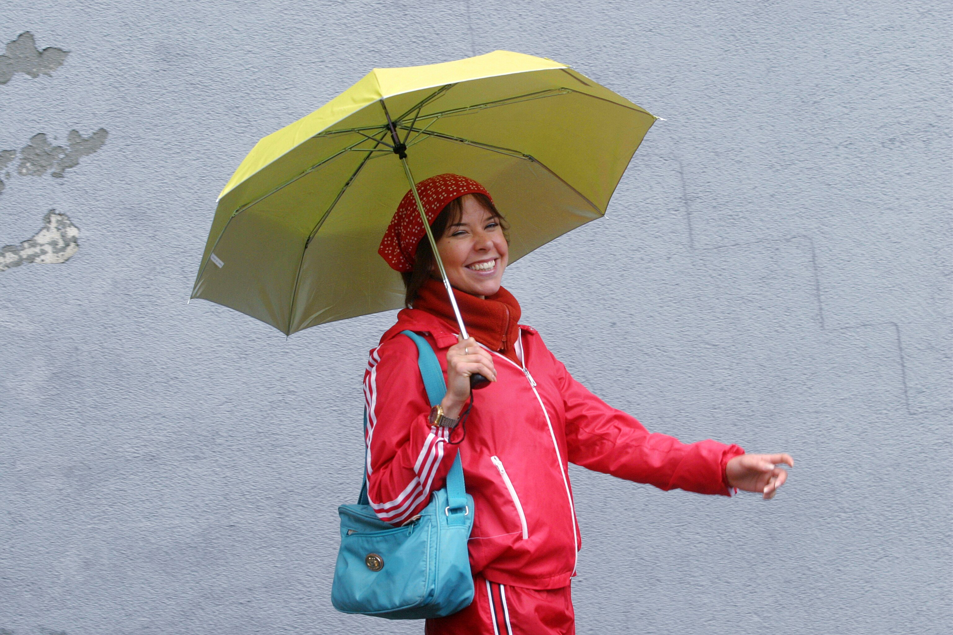 Estonian actress Kadri Adamson